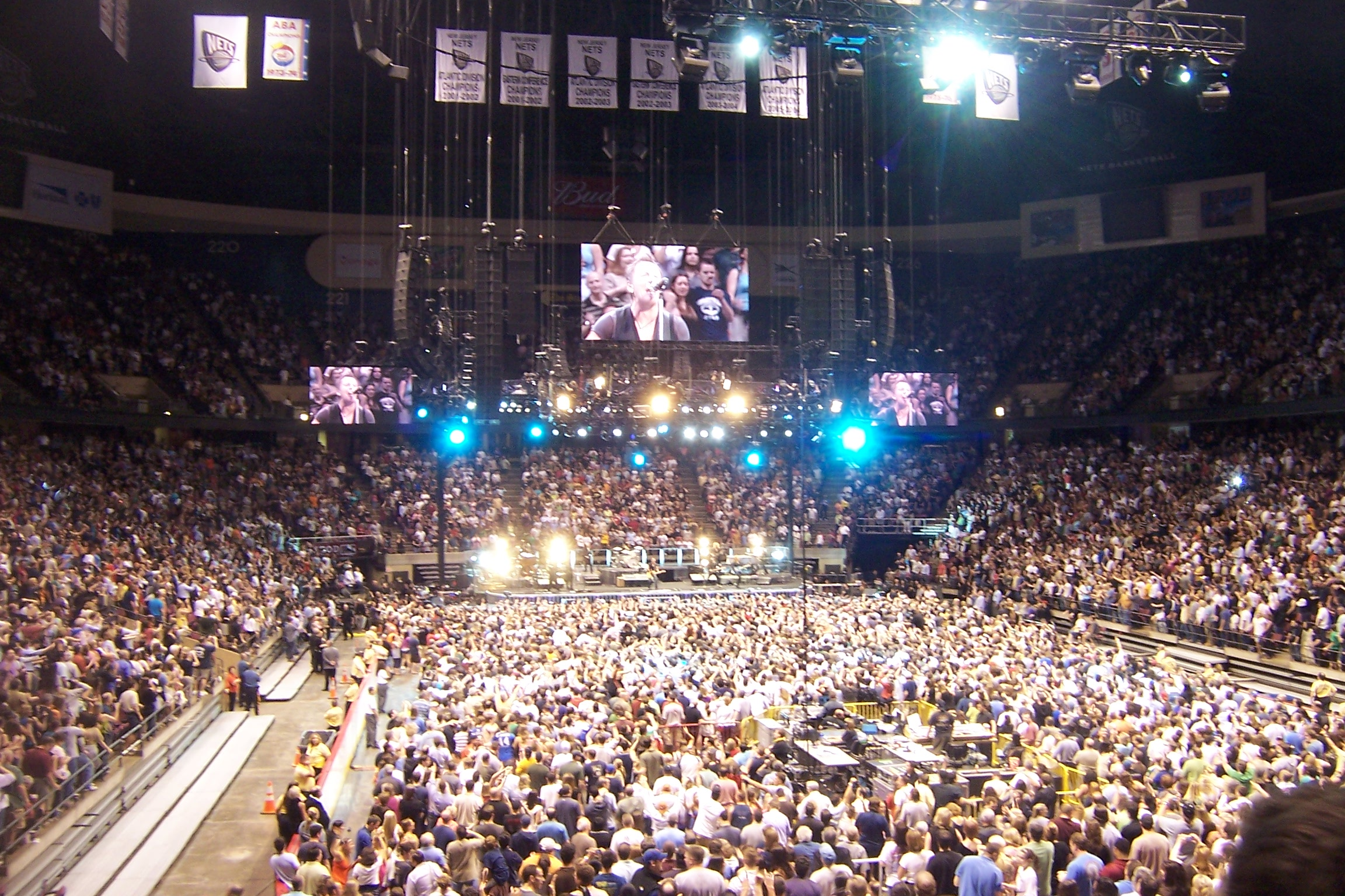 "Born to Run" being performed by Bruce Springsteen and the E Street Band at the Meadowlands.